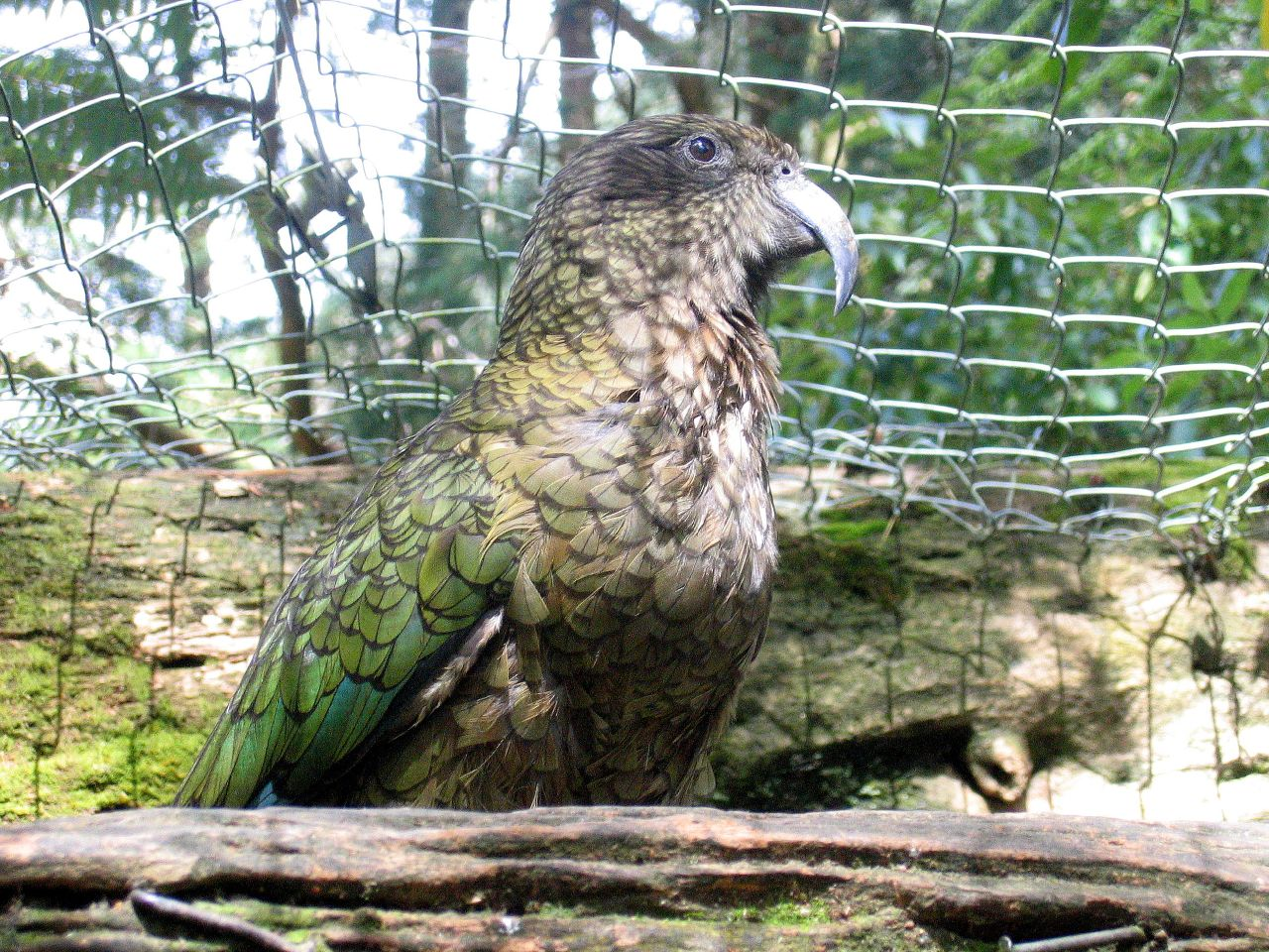 A Kea in captivity at Staglands Wildlife Reserve, Wellington, New Zealand.